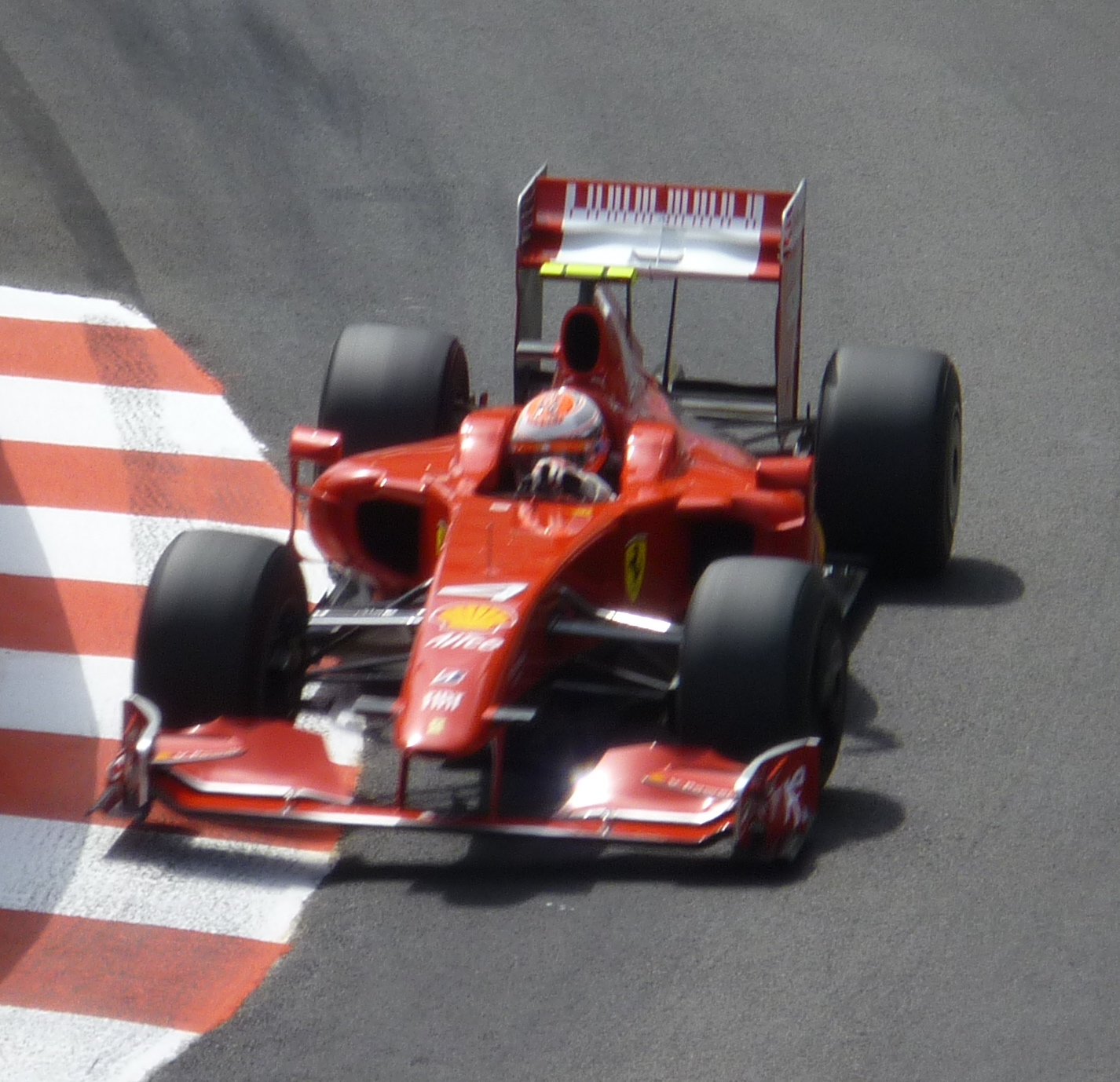 Kimi Räikkönen driving for Scuderia Ferrari at the 2009 Monaco Grand Prix.